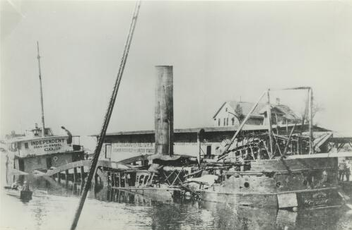 wreck of the steamer Muskegon